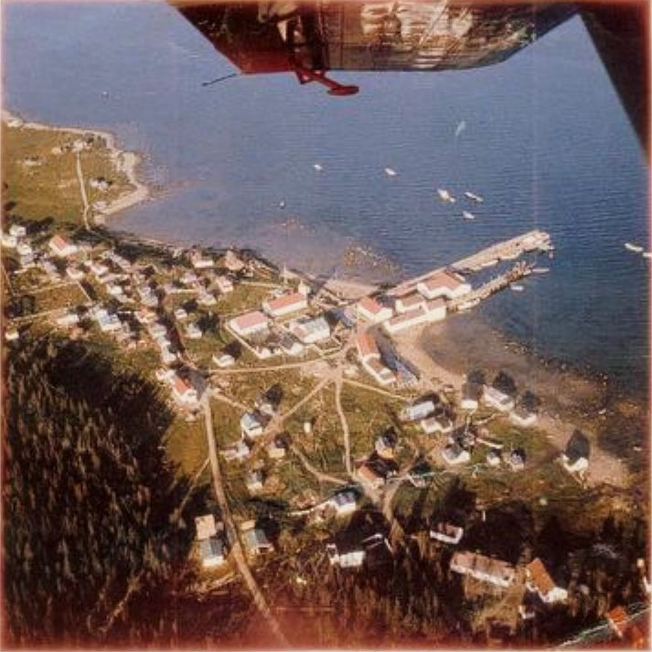 Aerial view of Nain, Newfoundland and Labrador.